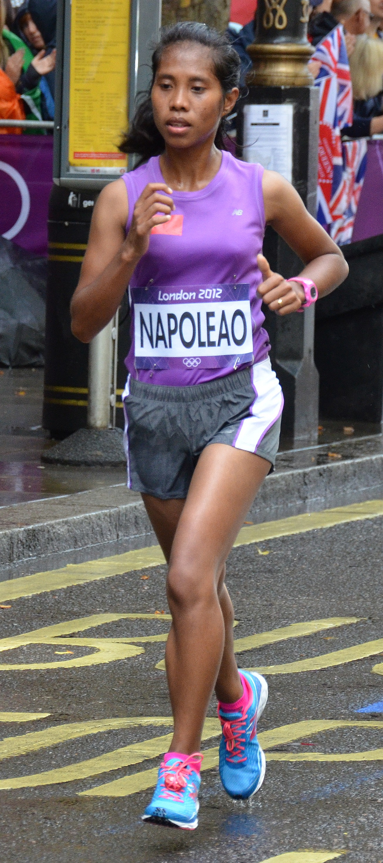 Juventina Napoleão (East Timor) in the marathon (w) at the Olympic Games 2012